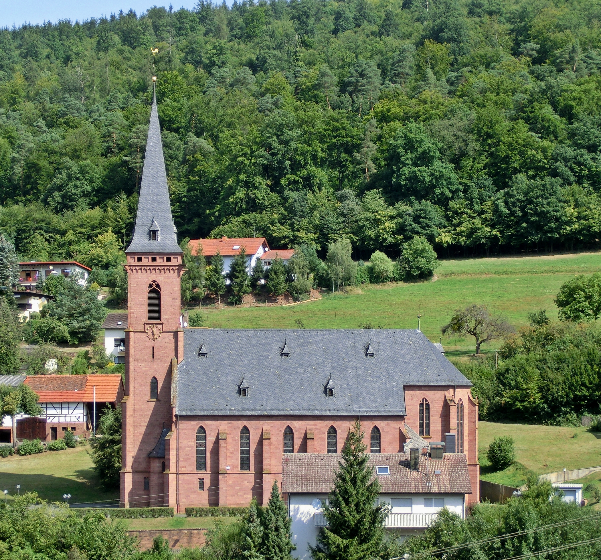 The church of Rippberg (district of Walldürn), Odenwald.